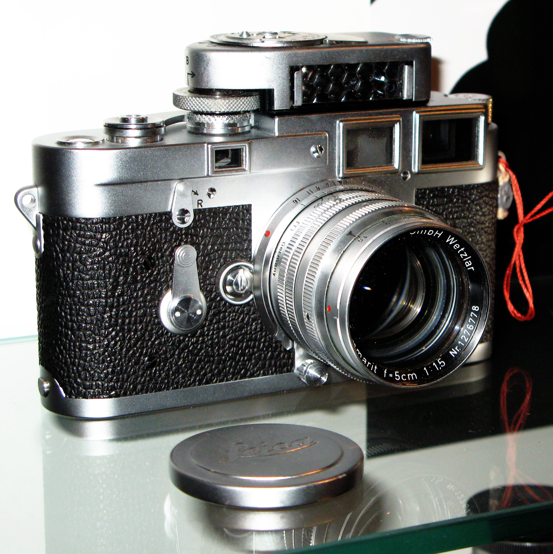 Leica M3 on display at Vevey Photography museum